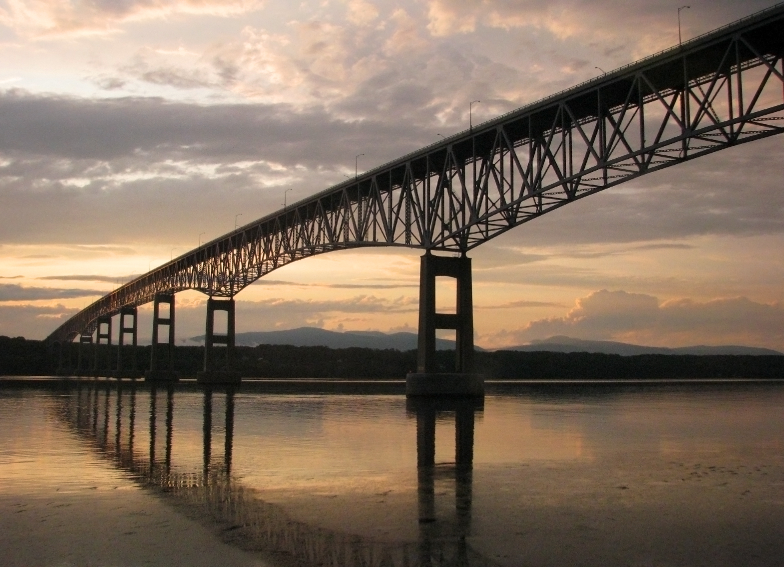 Photo of the Kingston-Rhinecliff Bridge taken from an Amtrak train on the east side of the Hudson River, New York, USA, just south of the bridge at sunset. The original photo was rotated, cropped, and adjusted for noise, contrast, exposure curve and saturation.